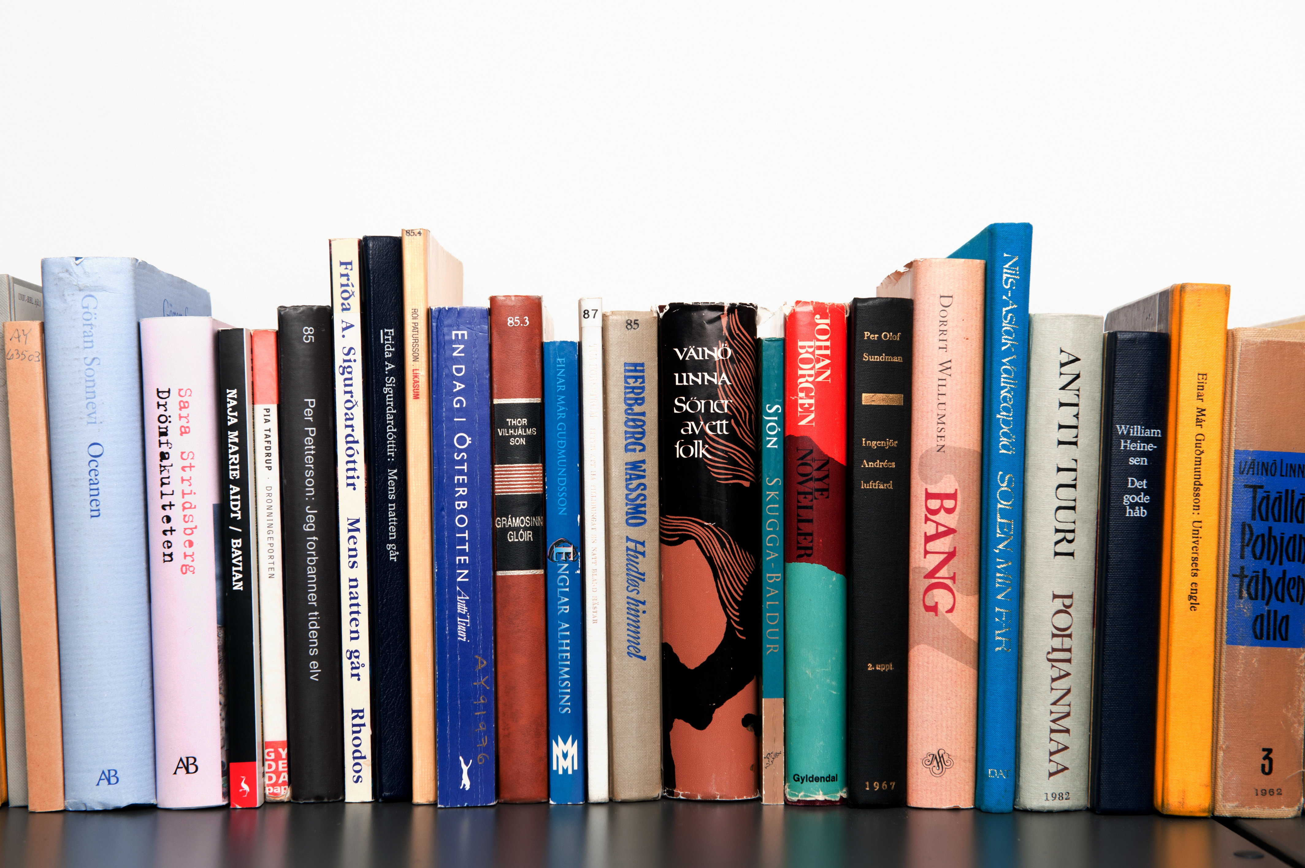 Urval av de böcker som har vunnit Nordiska rådets litteraturpris under de 50 år som priset funnits Keywords: Culture, Literature, Literature Prize